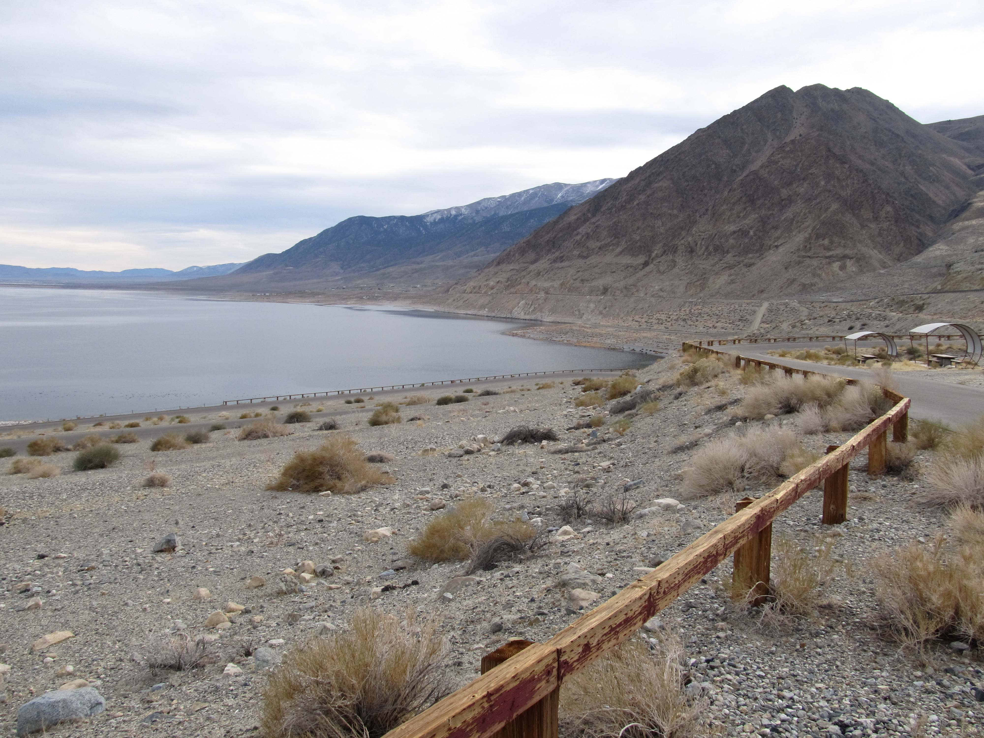 Walker Lake is a natural lake, 50.3 mi² (130 km²) in area, in the Great Basin in western Nevada in the United States. It is 18 mi (29 km) long and 7 mi (11 km) wide, located in northwestern Mineral County along the eastern side of the Wassuk Range, approximately 75 mi (120 km) southeast of Reno. The lake is fed from the north by the Walker River and has no natural outlet except absorption and evaporation. Walker Lake is the namesake of the geological trough in which it sits, and which extends from Oregon to Death Valley and beyond, the Walker Lane. In the 19th century the area around the lake was inhabited by the Paiute. Extensive use of the water of the Walker River and its tributaries for irrigation since the late 19th century has resulted in a severe drop in the level of the lake. According the USGS, the level dropped approximately 140 ft (40 m) between 1882 and 1994. The lower level of the lake has resulted in a higher concentration of stream pollutants. As of 2004 the salt concentration is above the lethal limit for most of the native fish species throughout much of the lake, and the survival of the Lahontan cutthroat trout in the lake will be threatened if inflow is not drastically increased. Also affected are the lake's Tui chub. In 2009, the town of Hawthorne canceled its Loon Festival because the lake, once a major stopover point for migratory loons, could no longer provide enough chub and other small fish to attract many loons. The Walker Lake State Recreation Area is located along the western shore of the lake. The Hawthorne Army Depot, which claims to be the world's largest ammunition depot, fills the valley to the south of the lake. U.S. Route 95 passes along the western shore of Walker Lake.